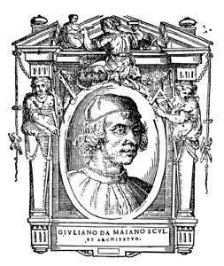 Illustratio from "Le Vite" by Giorgio Vasari, edition of 1568. For the artist portrayed see filename